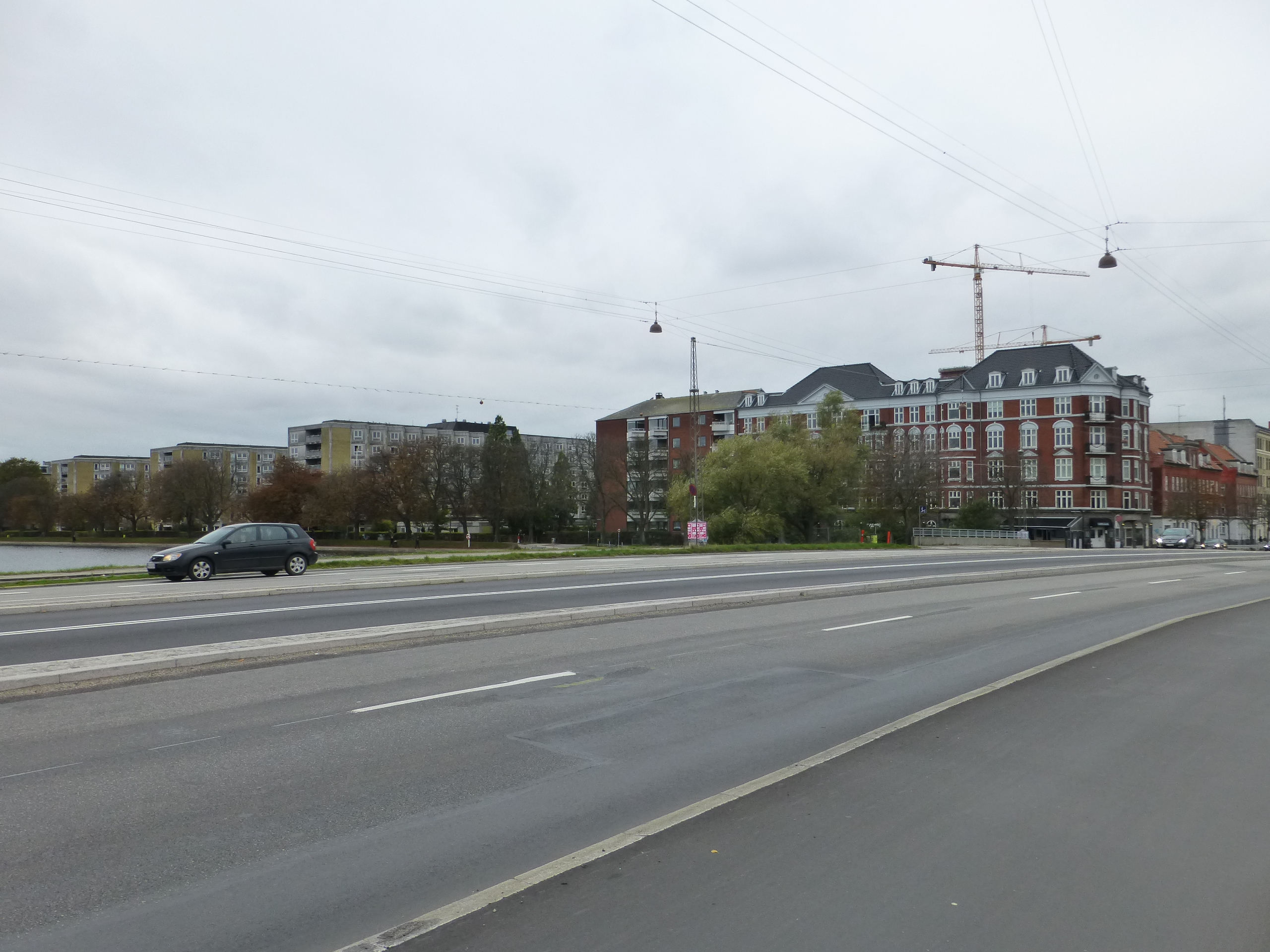 The bridge or rather embarkment Fredensbro in Copenhagen. In the middle the bus rapid transit Den Kvikke vej.